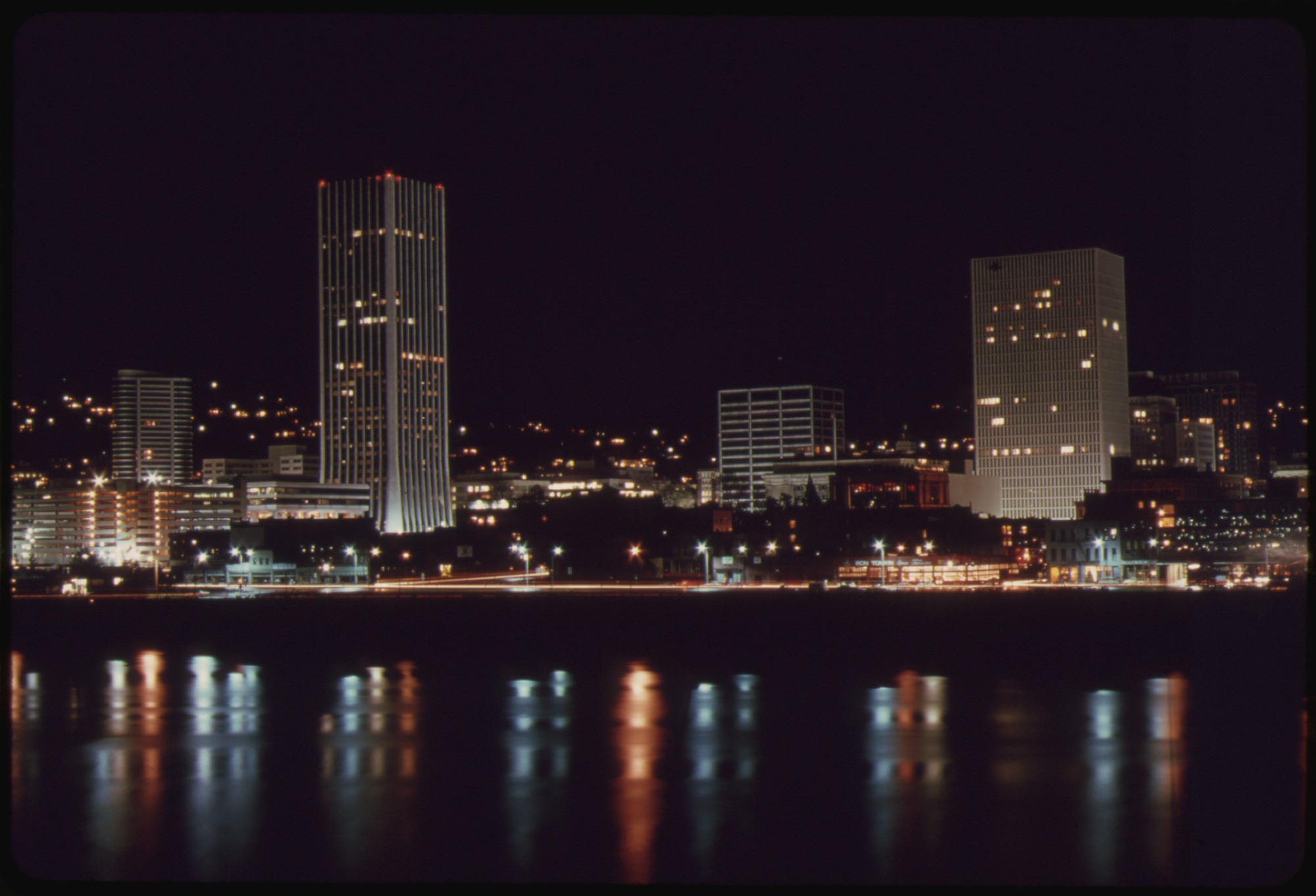 General notes: The two tallest building are at left is the First National Bank Tower (now known as the Wells Fargo Center) and at right is the Georgia-Pacific Building (now known as the Standard Insurance Center)